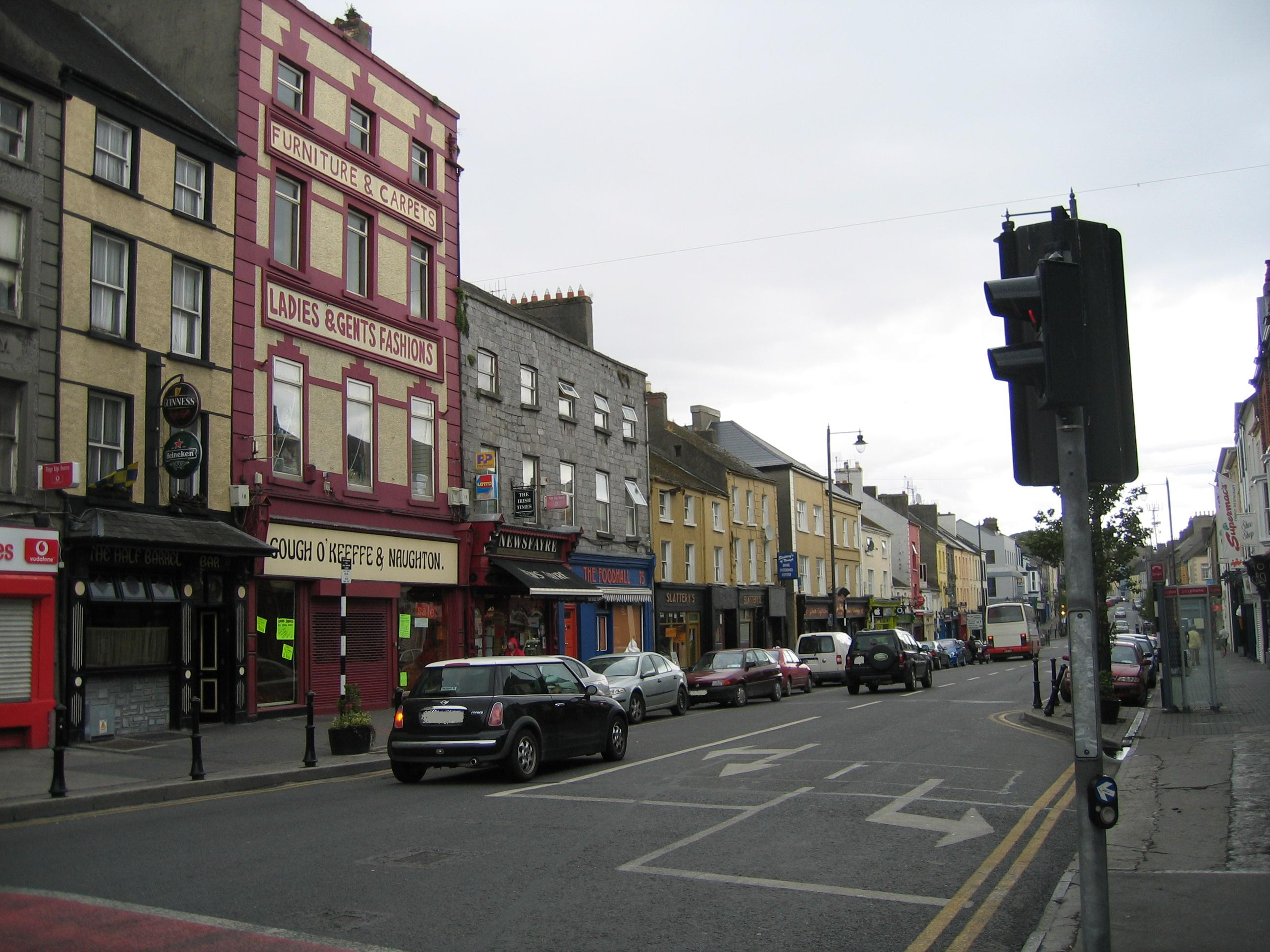 Pearse Street in Nenagh